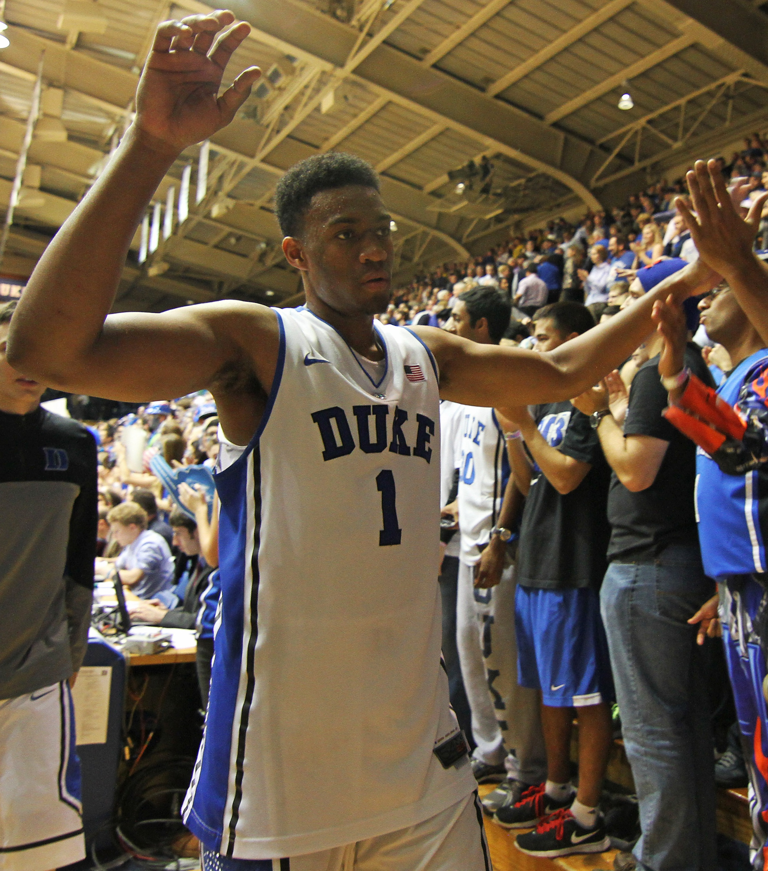 Jabari Parker